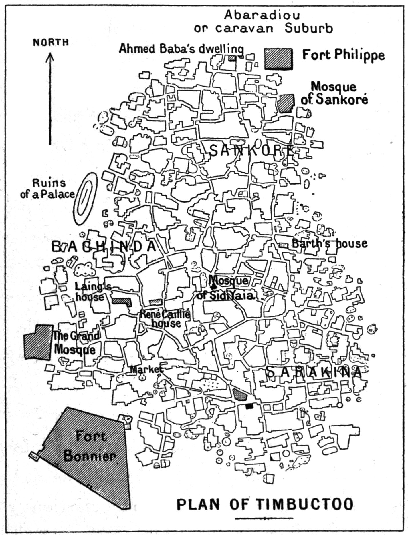 Plan of the town of Timbuktu in Mali.